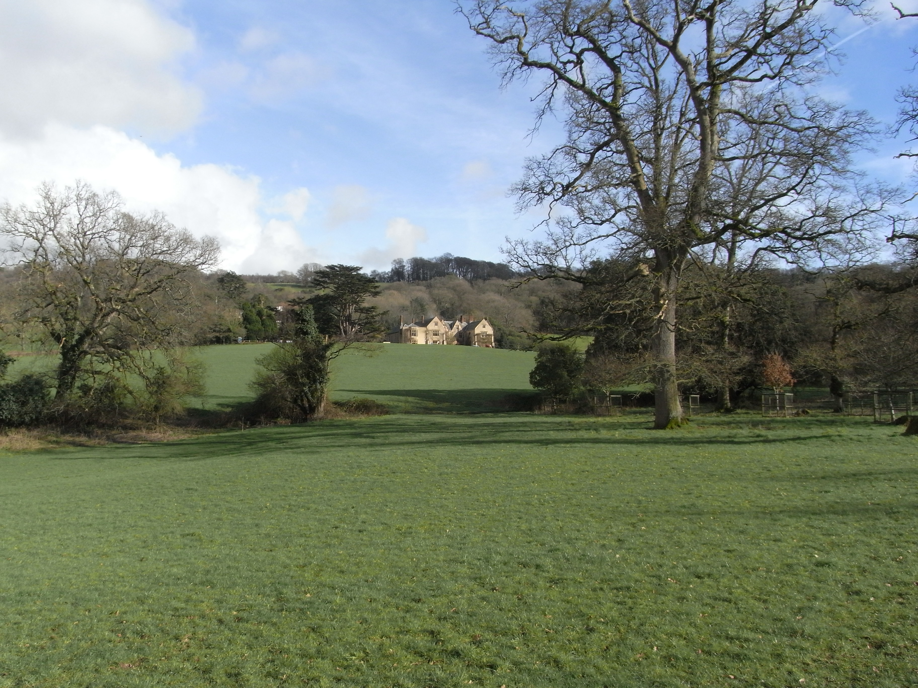 Combe, the manor house of Gittisham, Devon. View over parkland from west. Since 1968 a country house hotel.